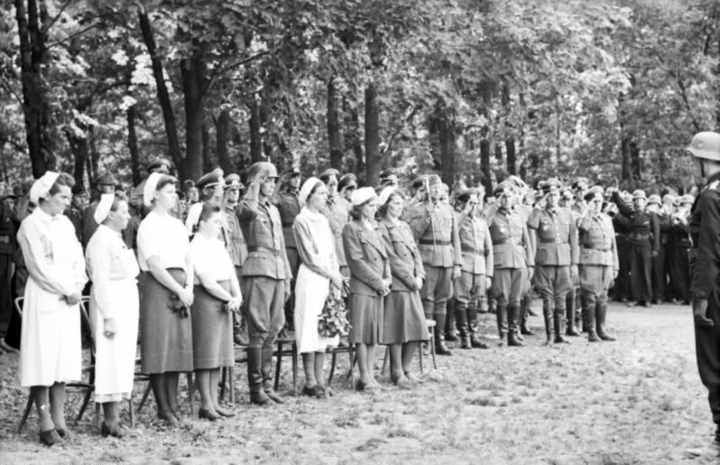 Information added by Wikimedia users.